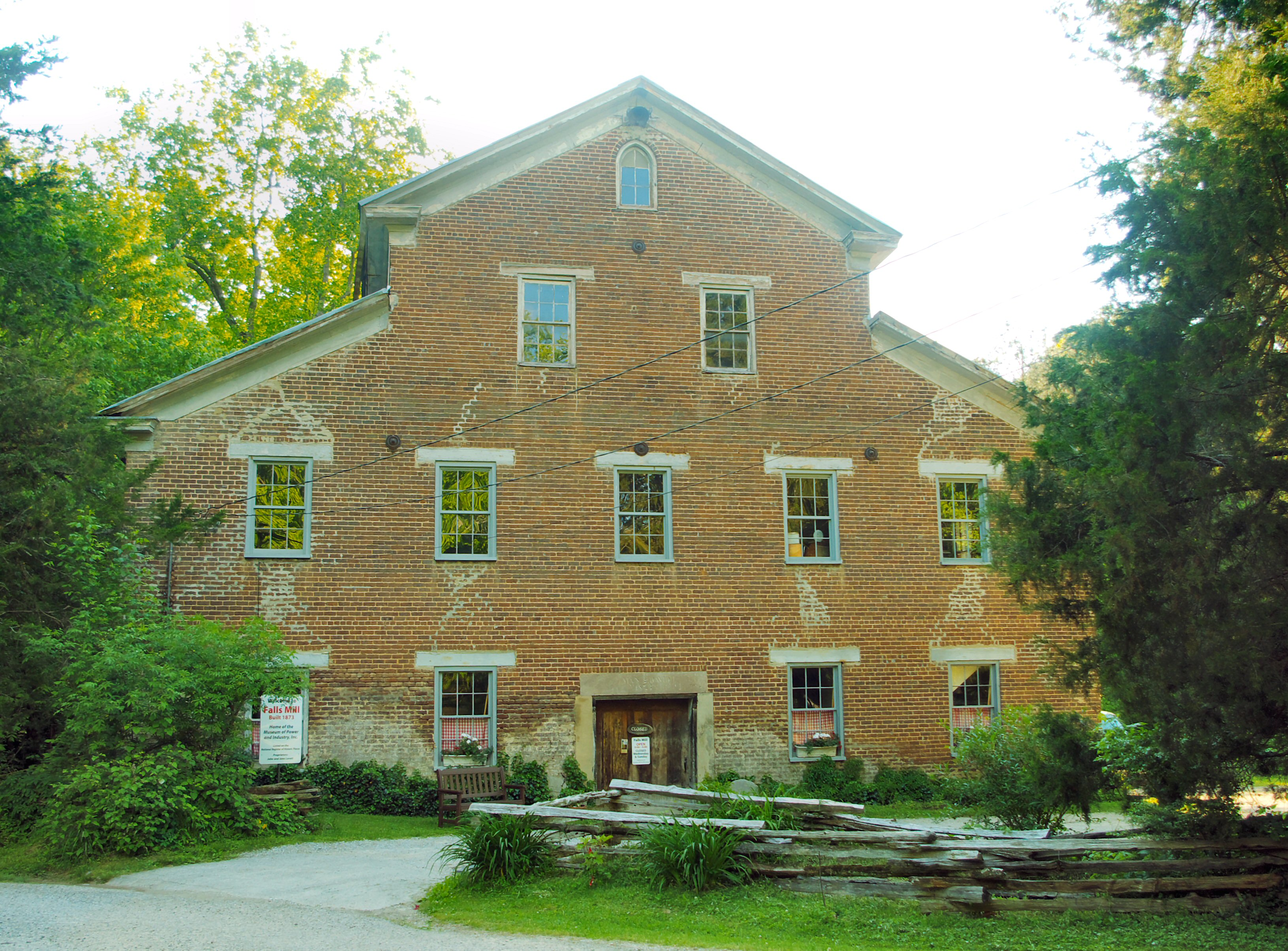 Falls Mill, a former factory located in the community of Belvidere in Franklin County, Tennessee, United States. Constructed in 1873, this building is now listed on the National Register of Historic Places.